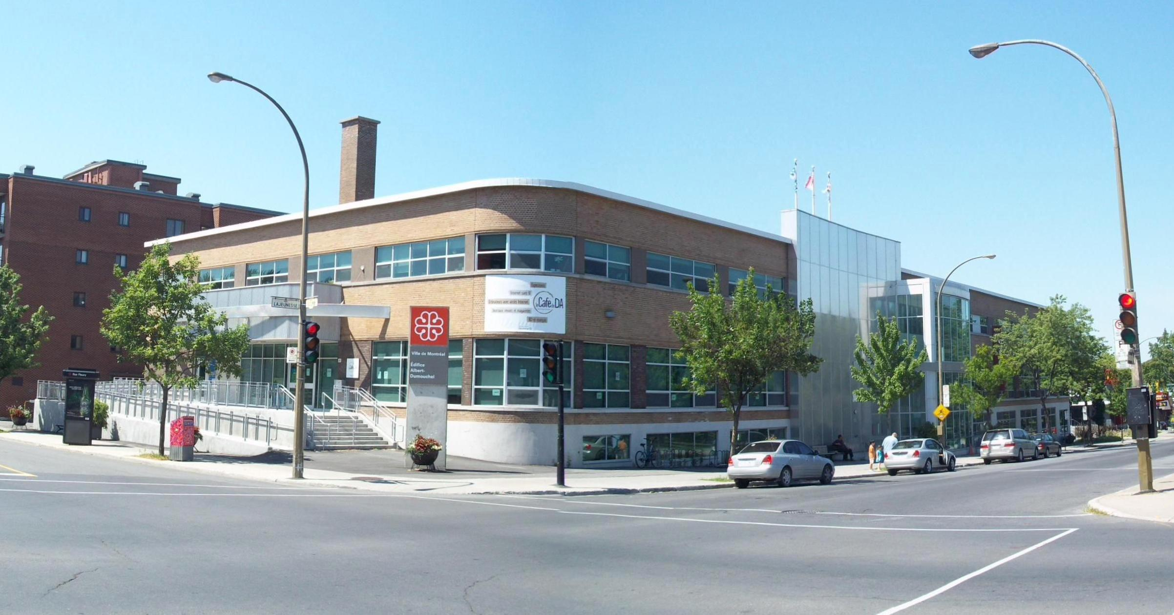 Albert Dumouchel Building, 10 300, rue Lajeunesse, Montréal. The Ahuntsic Library, Café de Da (internet café) and the maison de la culture Ahuntsic are located here.